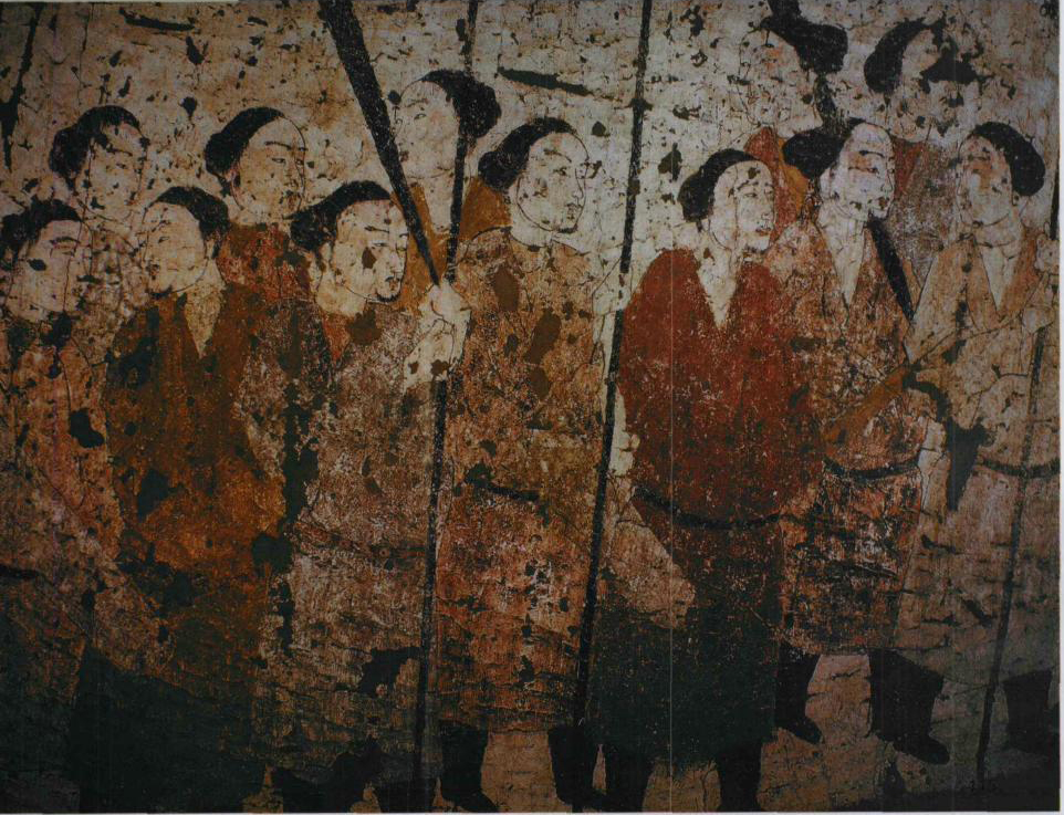 Paintings on the wall of Xu Xianxiu's Tomb of Northern Qi Dynasty